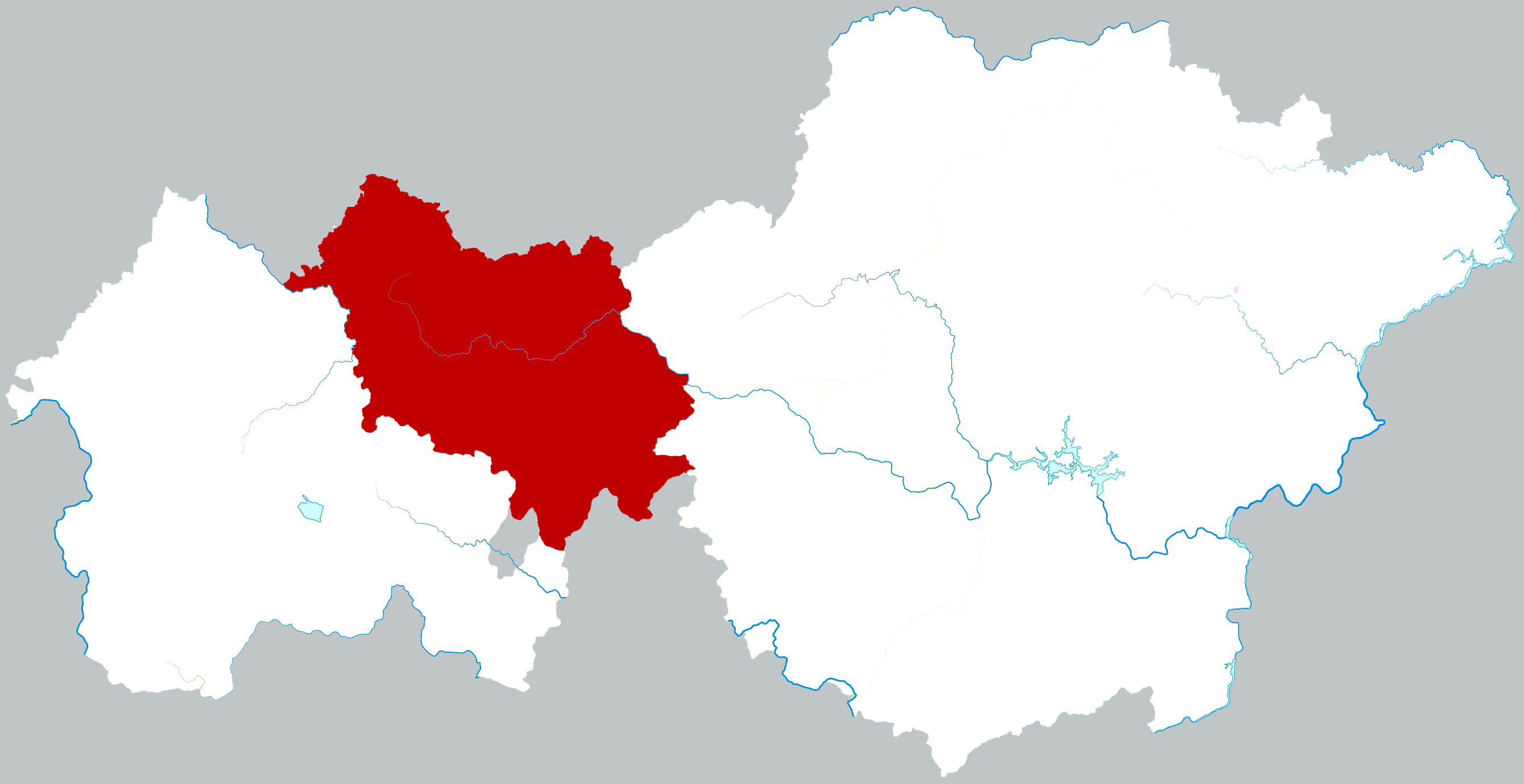 Location of Hezhang county in Bijie city, China